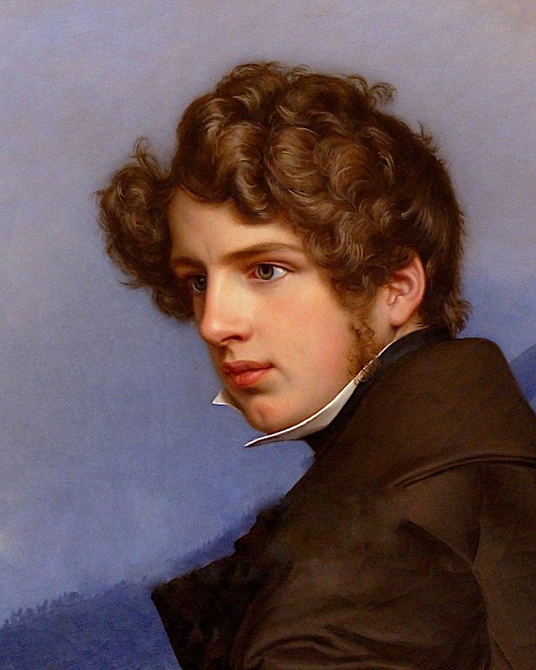 Duke Maximilian Joseph in Bavaria (1808-1888)